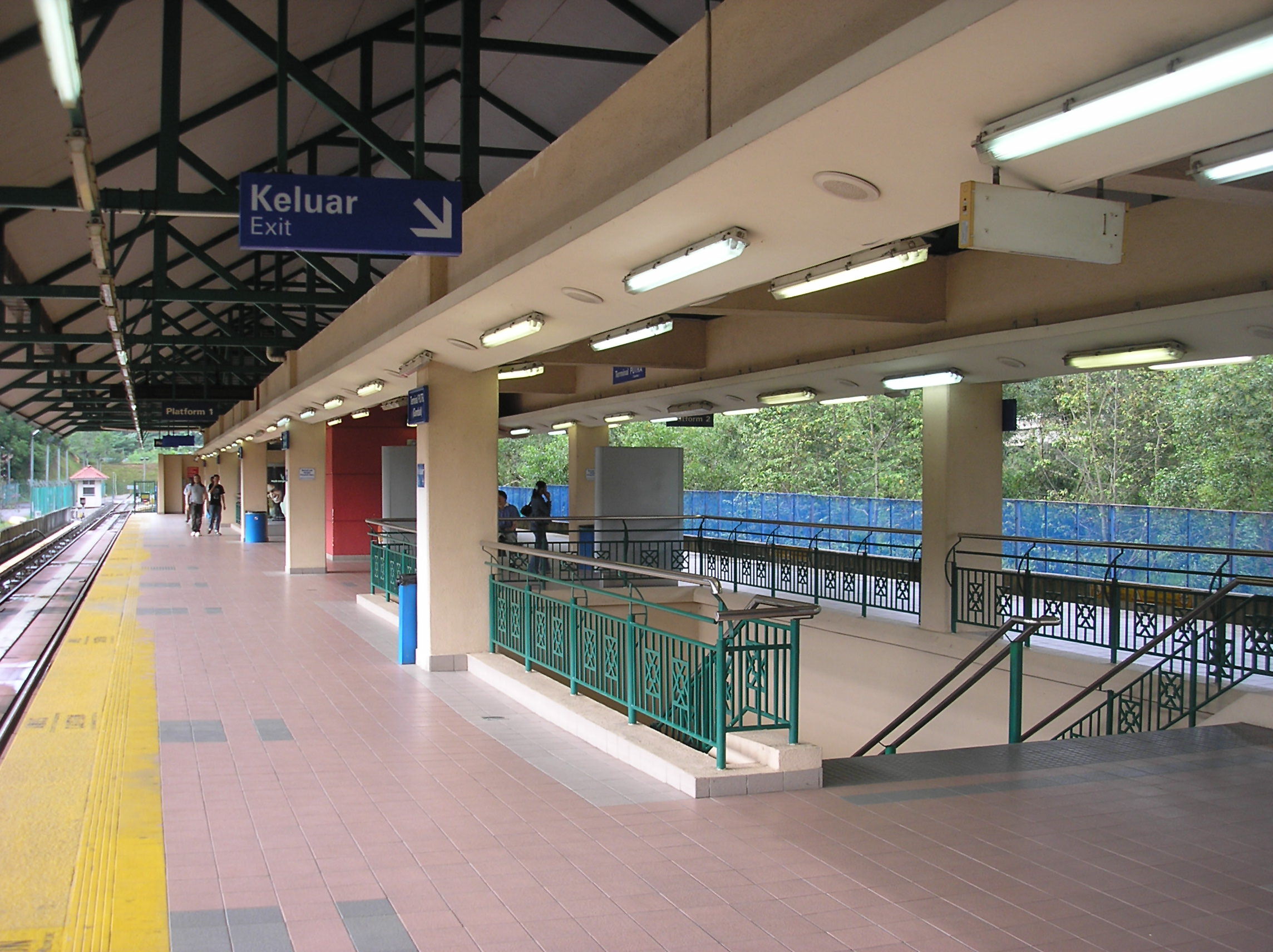 An platform view (towards the north) of the Terminal PUTRA station (Kelana Jaya Line), in Taman Melati, Kuala Lumpur, Malaysia.